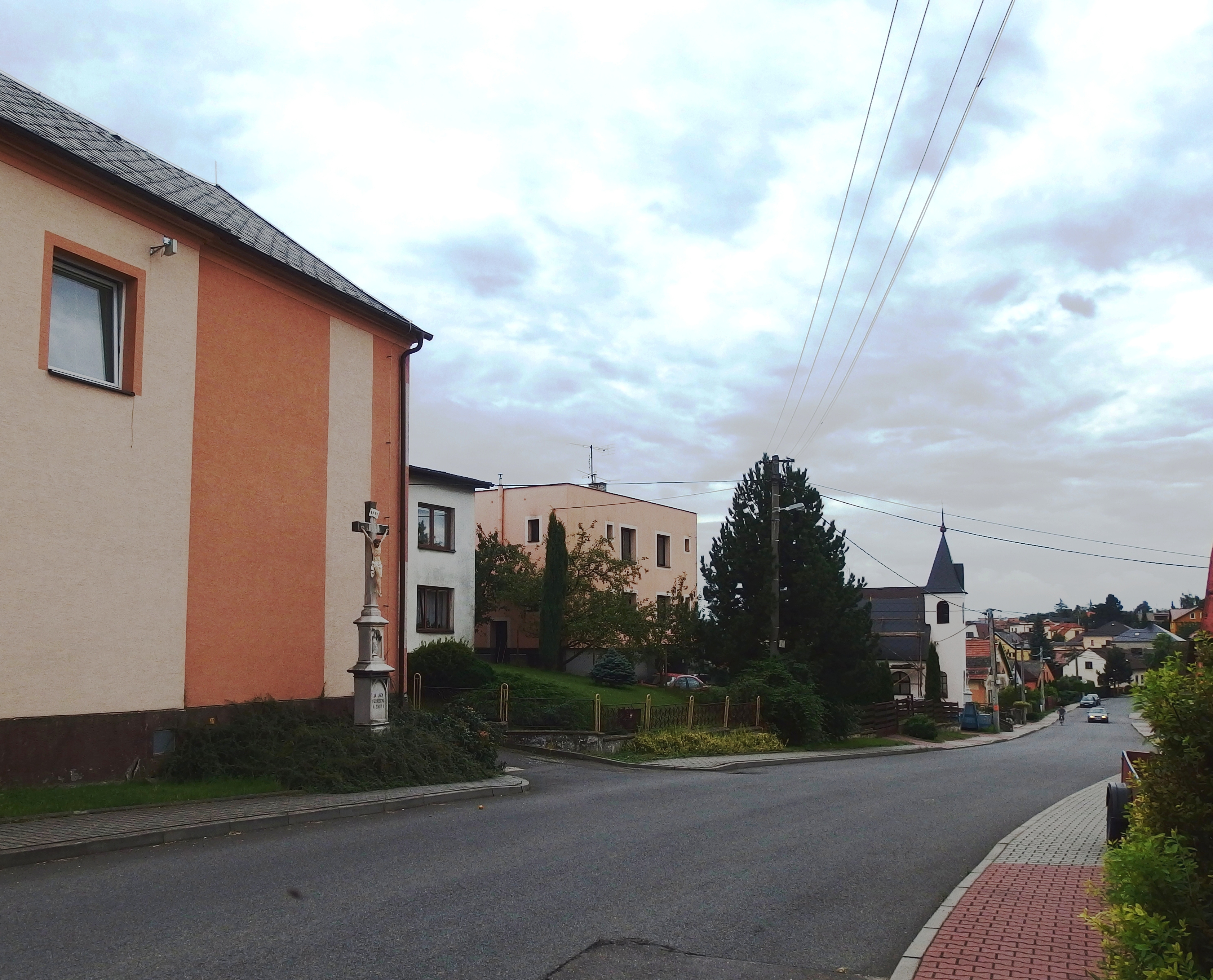 Služovice, Opava District, Czech Republic.